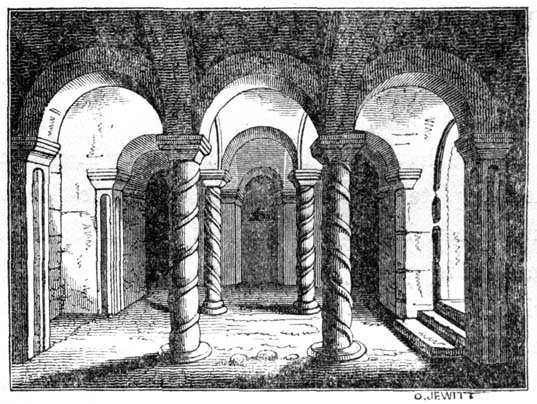 Church of England parish church of St Wystan, Repton, Derbyshire: 9th-century burial crypt for the Mercian royal family